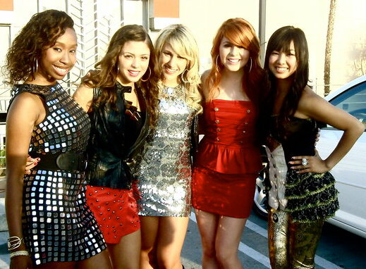 American girl group School Gyrls on set on SG2